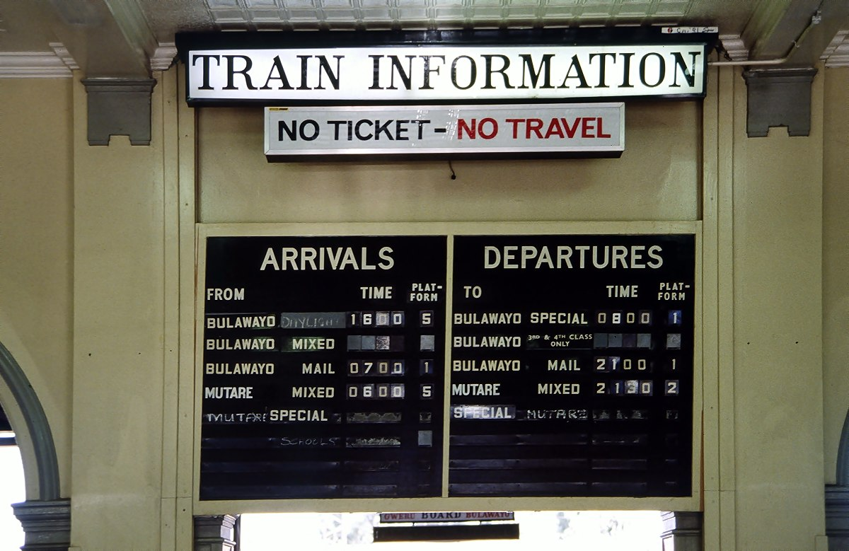 Arrival and departure board at Harare station building